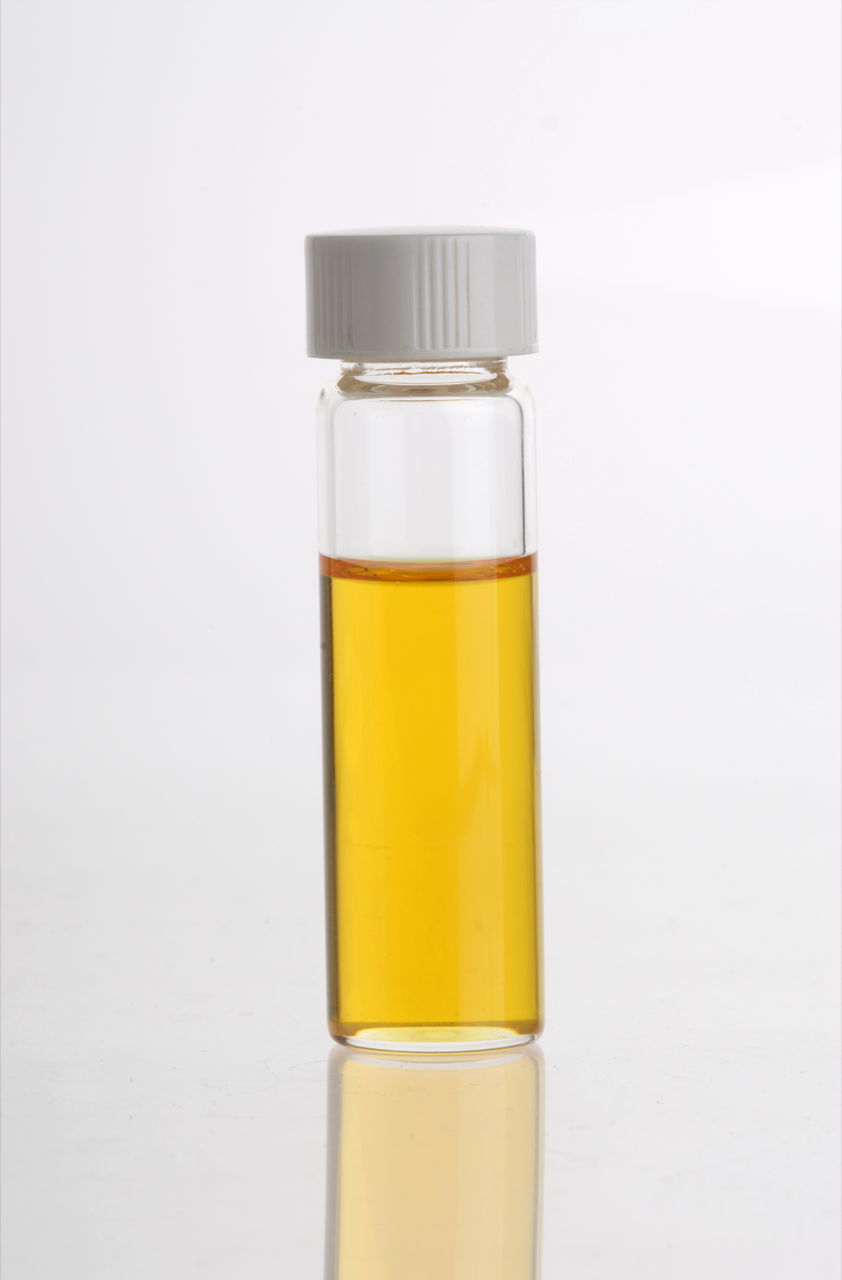 Glass vial containing Roman Chamomile (Anthemis nobilis) Essential Oil